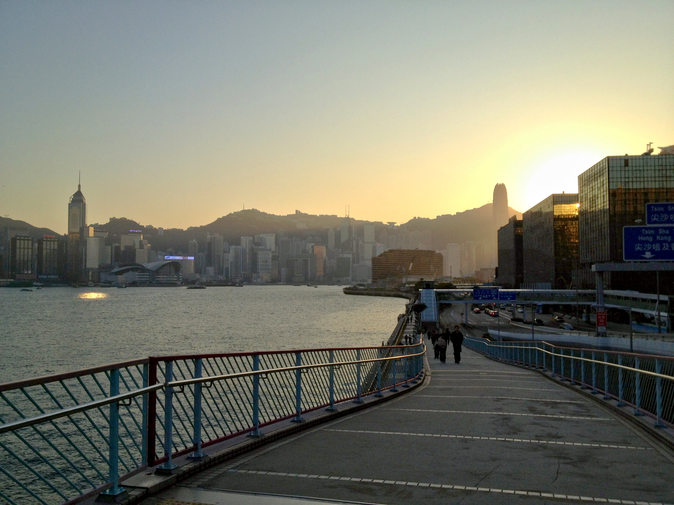 Hung Hom Bypass pedestrian walkway